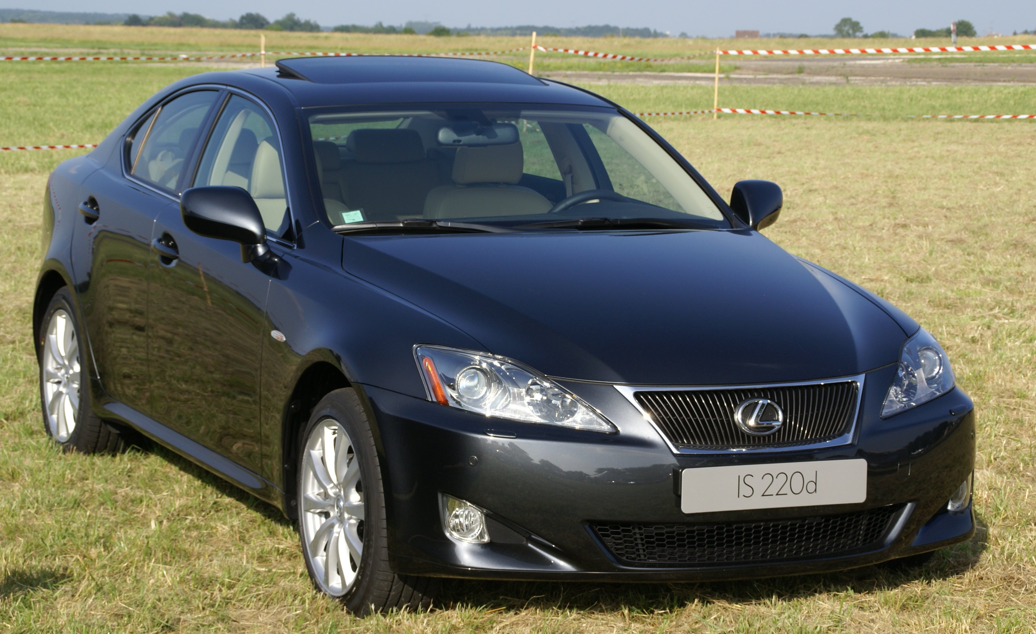 Lexus IS220D en finition Pack Executive